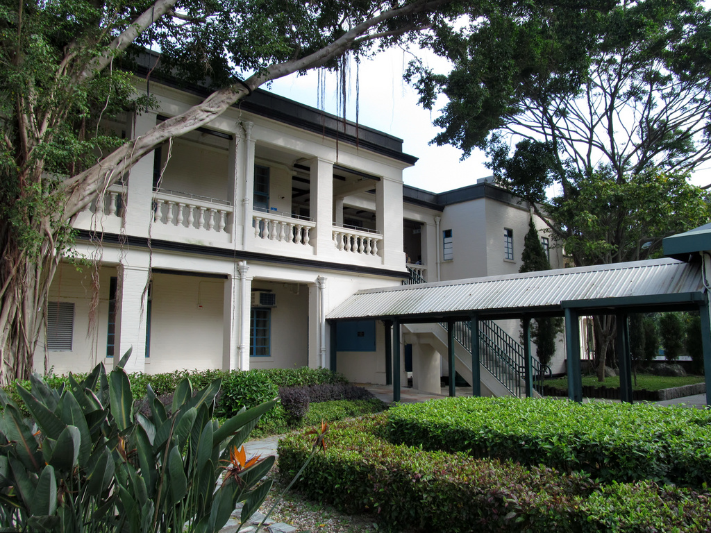 Lyemun Barracks Block 25, Lei Yue Mun Park and Holiday Village